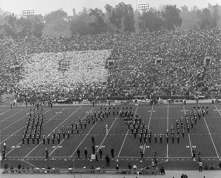 University of Wisconsin--Madison Badger band forming a "W" during the 1963 Rose Bowl Pregame. Photograph by Carl Stapel, January 1, 1963 University of Wisconsin Digital Collections